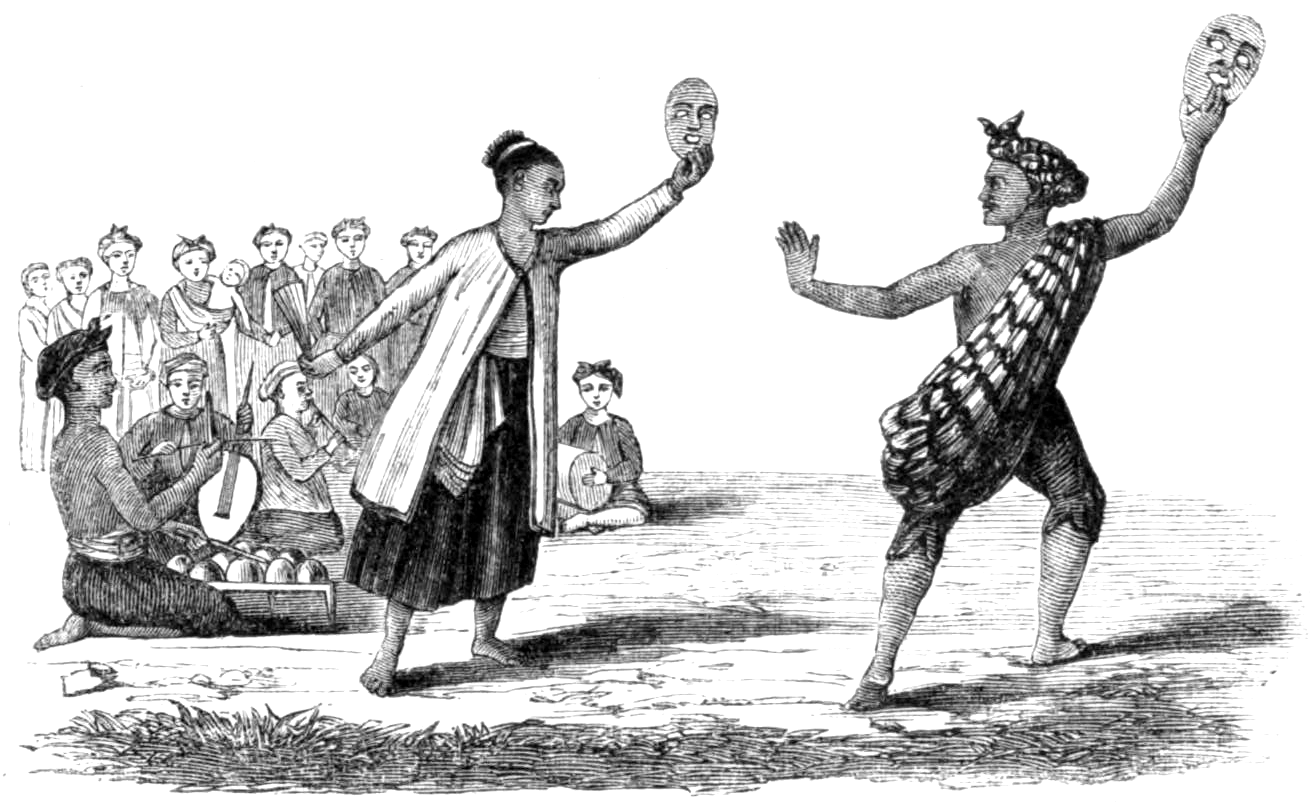 Life in Java Volume 1 - title